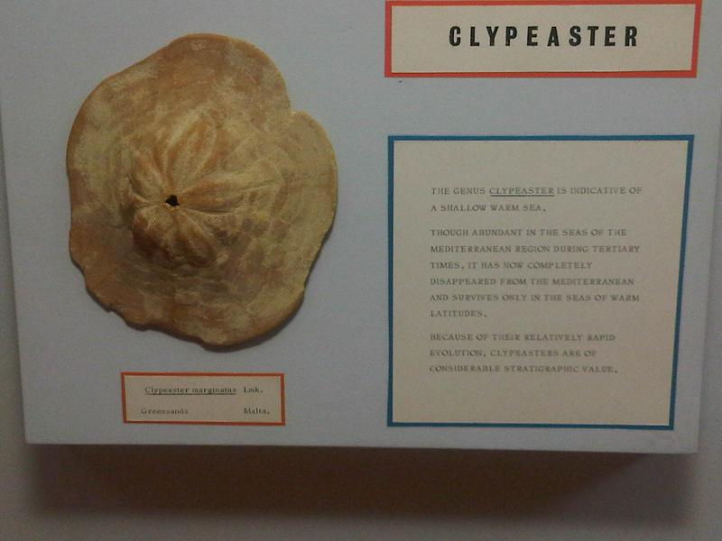 Clypeaster marinanus - syn: Clypeaster marginatus at the National Museum of Natural History, Vilhena Palace, Republic of Malta. The genus Clypeaster is indicative of a shallow warm sea. Though abundant in the seas of the Mediterranean region during Tertiary times, it has now completely disappeared from the Mediterranean and survives only in the seas of warm latitudes. Because of their relatively rapid evolution, Clypeasters are of considerable stratigraphic value.